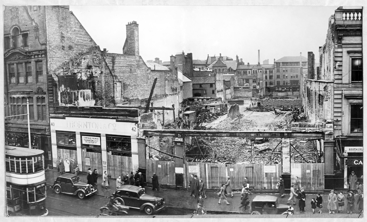 Photographs from a report compiled by the Ministry of Public Security on the air raids on Belfast and their aftermath. Creator: Ministry of Public Security, records of the Cabinet Secretariat Date: 1941 Original Format: Photographic print Description: Donegall Place, Belfast, partly cleared - July 1941 PRONI Ref: CAB/3/A/68/A For Copy Orders, contact: For fees and charges